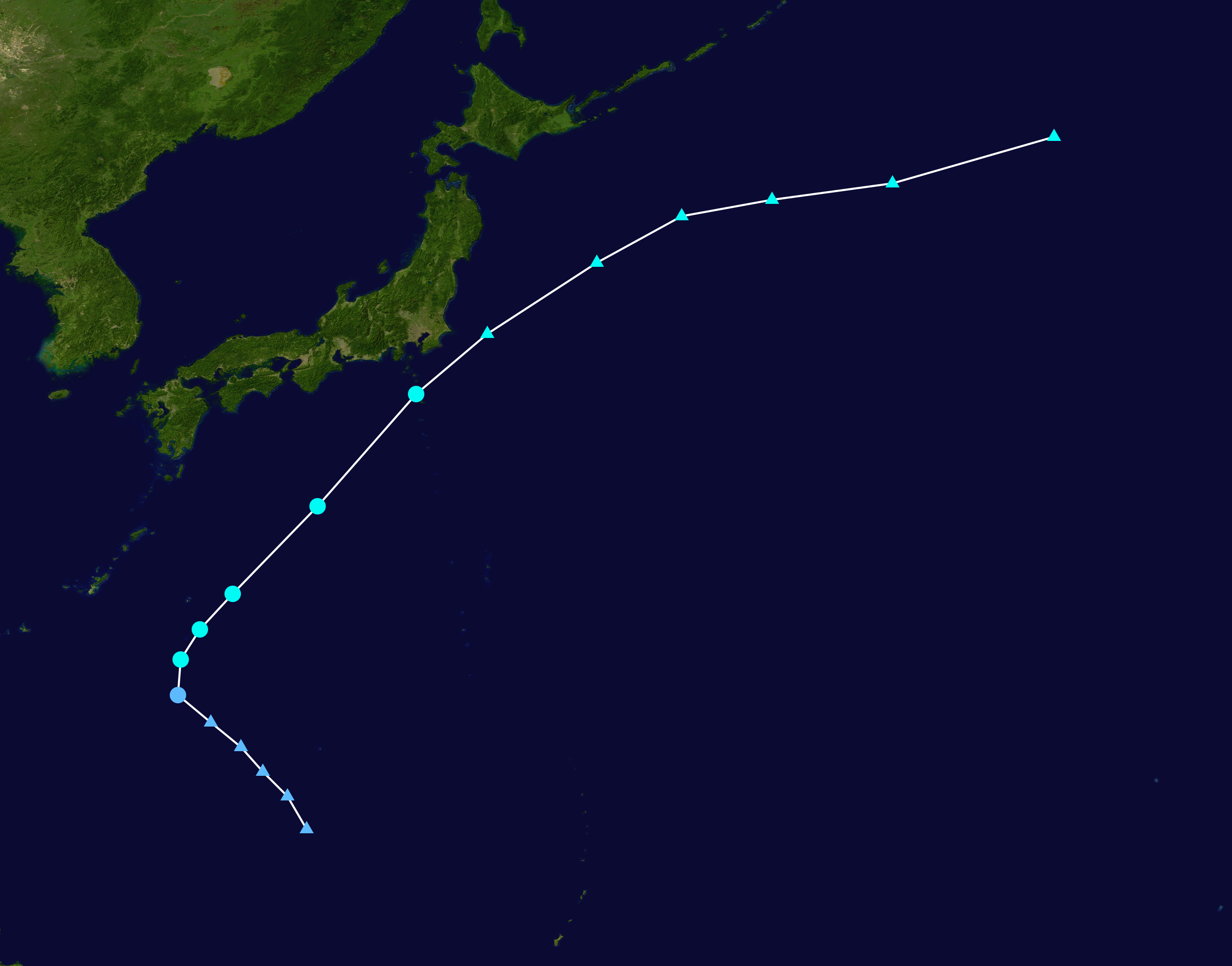 Track map of Severe Tropical Storm Faxai of the 2007 Pacific typhoon season. The points show the location of the storm at 6-hour intervals. The colour represents the storm's maximum sustained wind speeds as classified in the Saffir–Simpson scale (see below), and the shape of the data points represent the nature of the storm, according to the legend below. Saffir–Simpson scale Tropical depression≤38 mph≤62 km/h Category 3111–129 mph178–208 km/h Tropical storm39–73 mph63–118 km/h Category 4130–156 mph209–251 km/h Category 174–95 mph119–153 km/h Category 5≥157 mph≥252 km/h Category 296–110 mph154–177 km/h Unknown Storm type Tropical cyclone Subtropical cyclone Extratropical cyclone / Remnant low / Tropical disturbance / Monsoon depression